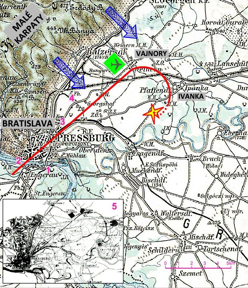 Possible trajectory of plane with Štefánik by PhDr. Pavol Kanis, based on sketch of general Piccione. 1 - Old bridge 2 - Castle 3 - Artillery barracks 4 - Dynamit Nobel 5 - Sketch of Piccione